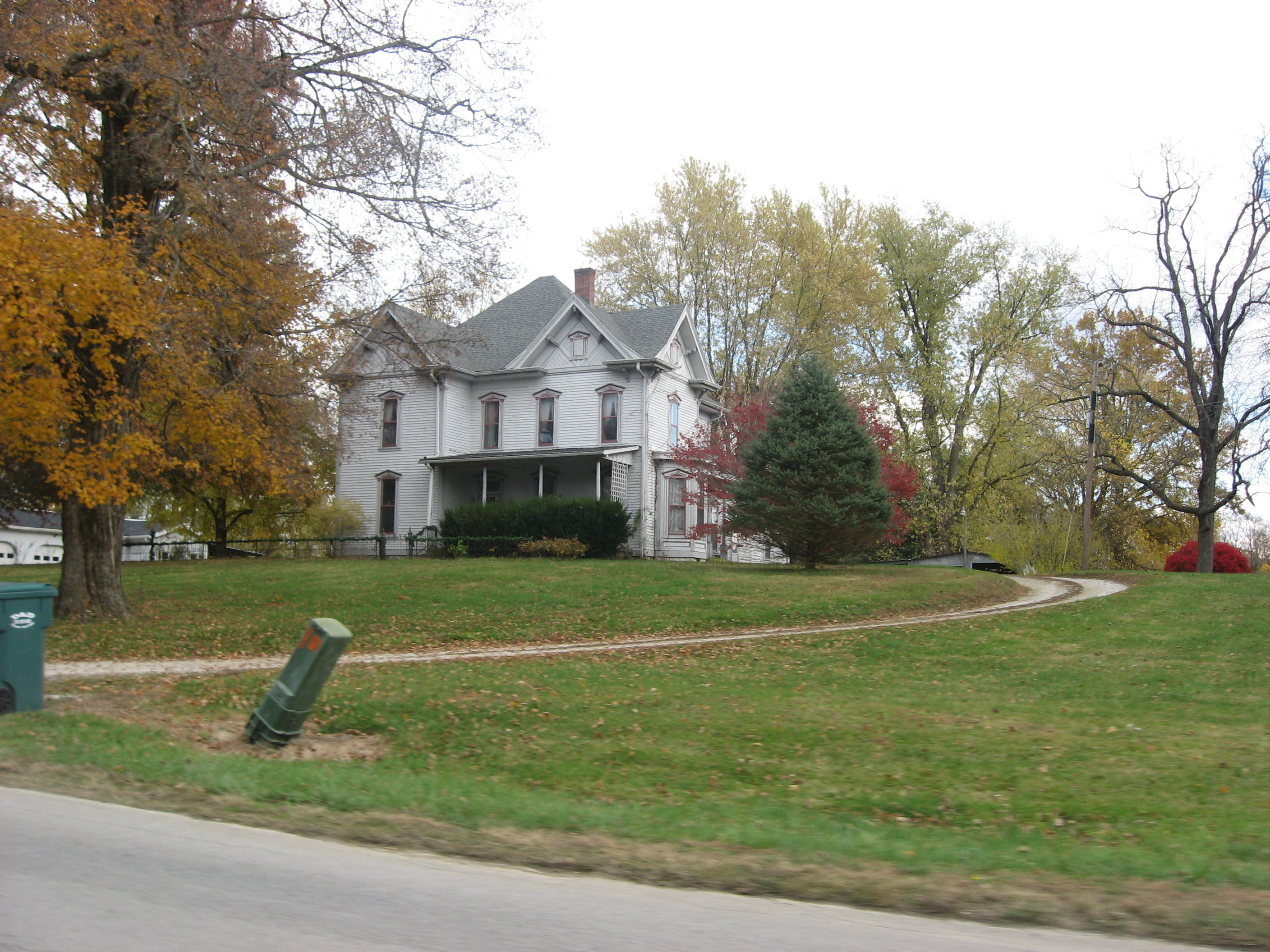 Roadside view of the Lycurgus Stoner House, located on the eastern side of Manhattan Road just north of its junction with W550S north of Manhattan in northeastern Washington Township, Putnam County, Indiana, United States. Built in 1883, it is listed on the National Register of Historic Places.